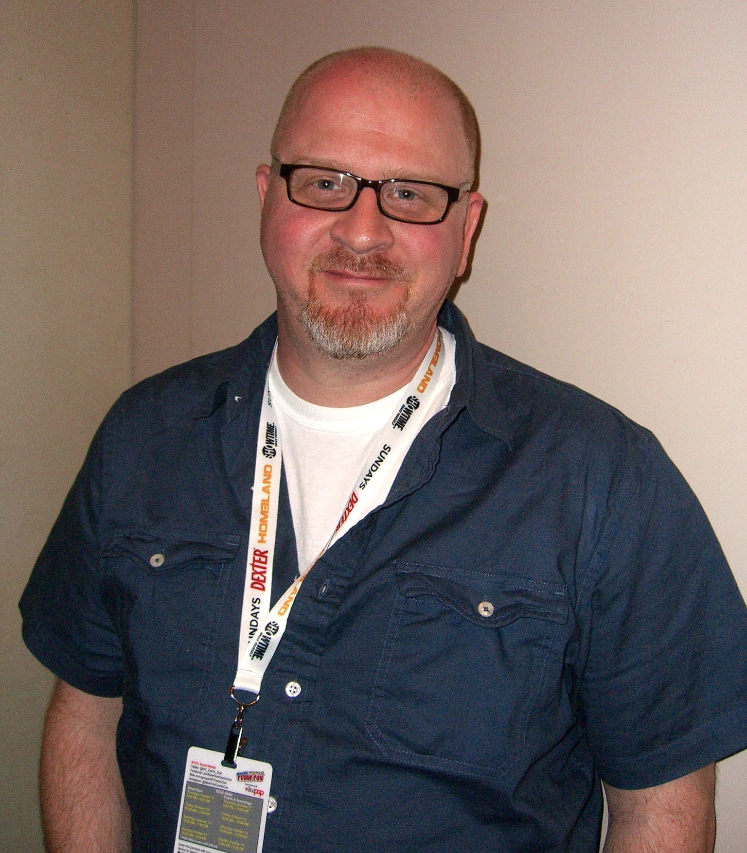 Comics creator Cully Hamner on Day 2 of the 2012 New York Comic Con, Friday October 12, 2012 at the Jacob K. Javits Convention Center in Manhattan.